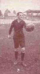 Photo of Jack House taken before 1923